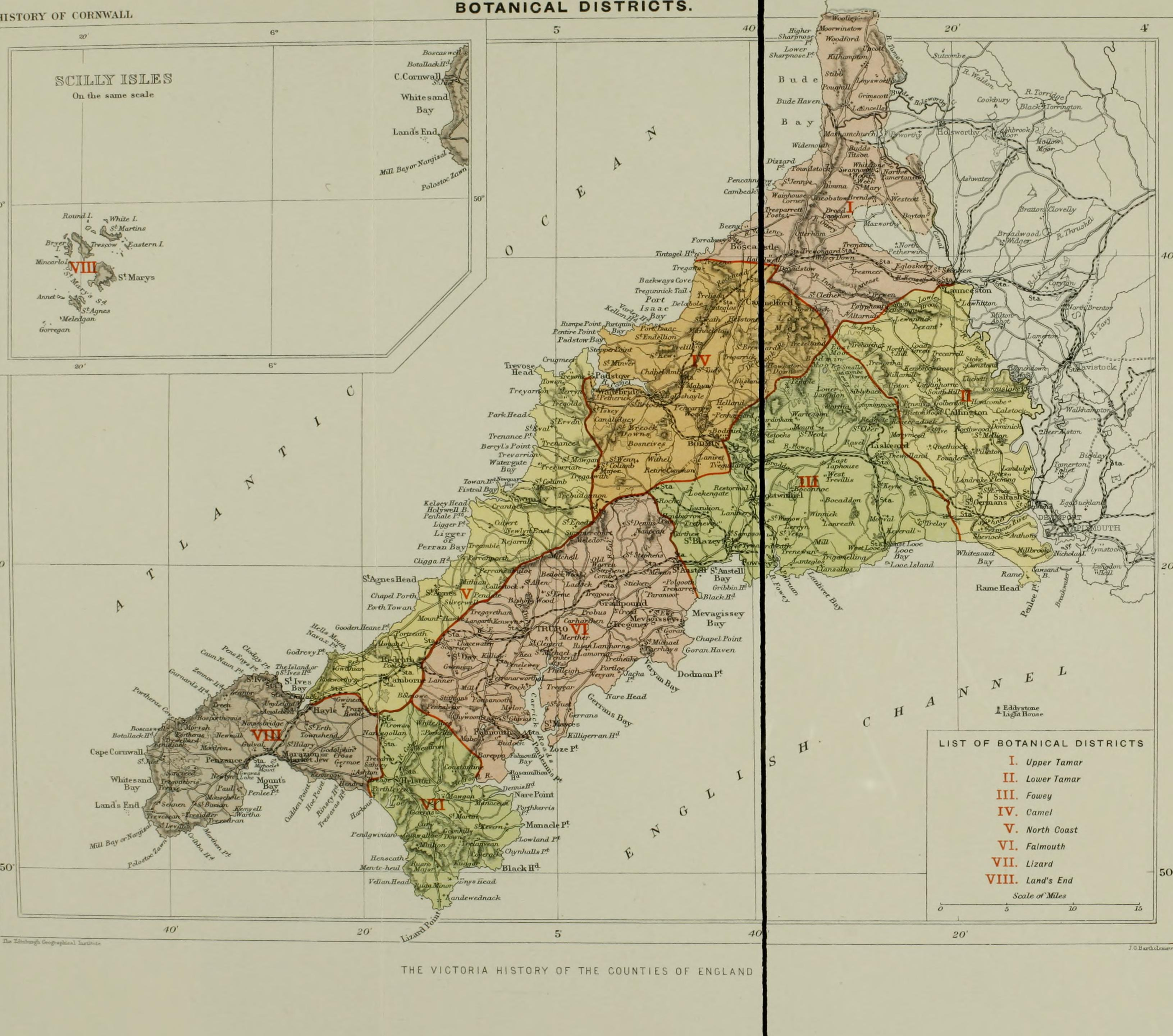 Title: The Victoria history of the county of Cornwall Year: 1906 (1900s) Authors: Page, William, 1861-1934 Subjects: Natural history Publisher: London : (A. Constable and Company) Text Appearing Before Image: ^Whiu t. BatalLuiiB9\C.CoilIWEL 40 Text Appearing After Image: dO J G Bar^oLnn* BOTANY A BRIEF glance at a map of Cornwall would prepare the averagefield botanist for a rich harvest. Favoured geographically, in-asmuch as they come within range of the genial operations ofthe Gulf Stream ; including a coast line which may be takenapproximately as 250 miles ; furnished with a chain of bold hillsforming a sort of backbone to the county ; and including among otheradvantages densely wooded and well watered valleys opening to the sea onboth the north and the south coast, a good deal of land peculiarly favour-able to paludal and ericetal plants, and long stretches of beach andblown sand where all kinds of littoral subjects lurk, the 887,740 acresof which from a botanical point of view Cornwall is comprised holdprobably a larger number of species than any other British county ofthe same size. If meteorological values be added to the mapanother key will have been furnished to the richness of the flora. Tosay nothing of the high mean bright sunshine, and of